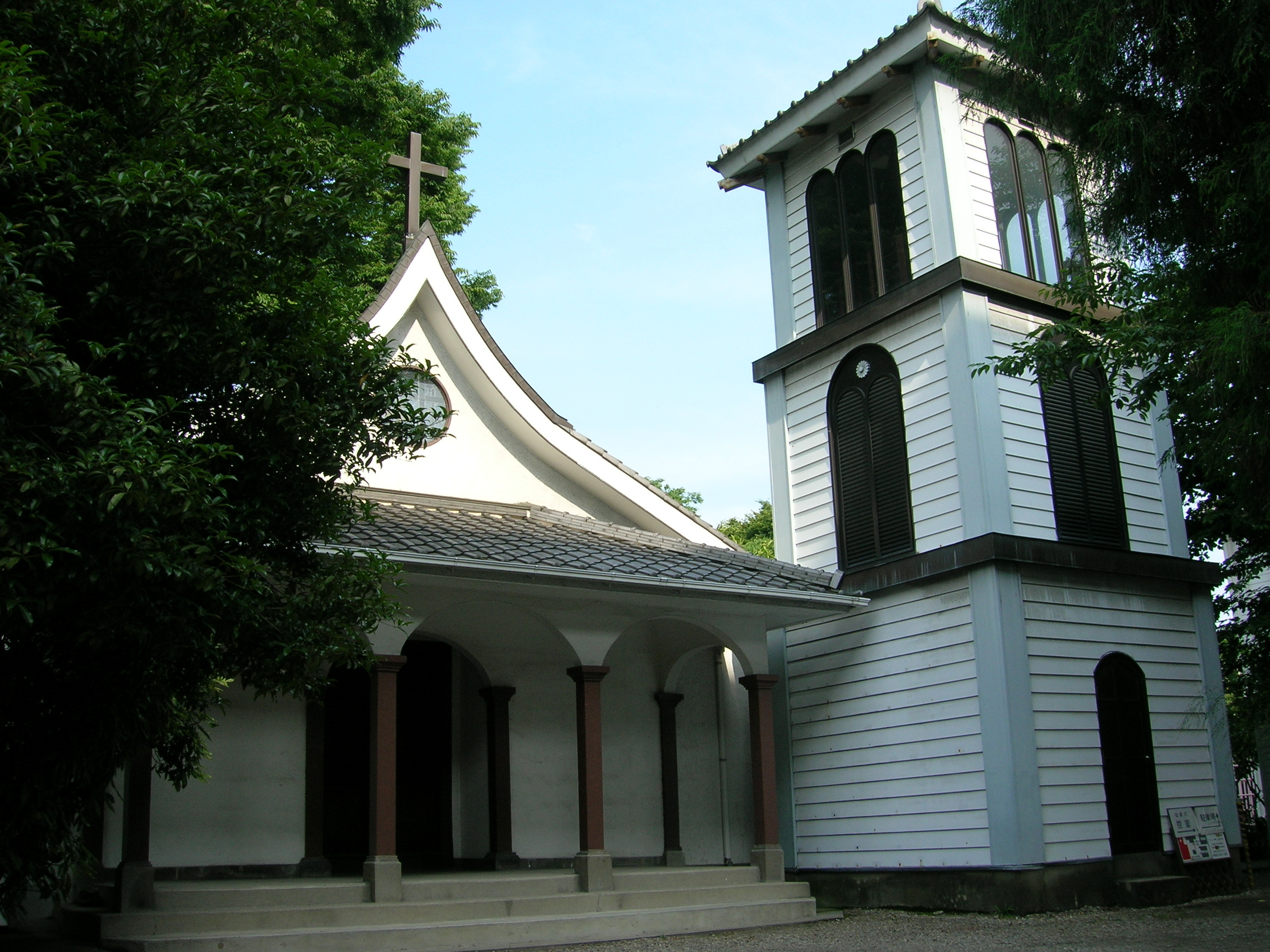 Catholic Chikara-machi Kyokai (Catholic Chikaramachi Church). Loc: Higashi word, Nagoya city, Aichi Prefecture, Japan